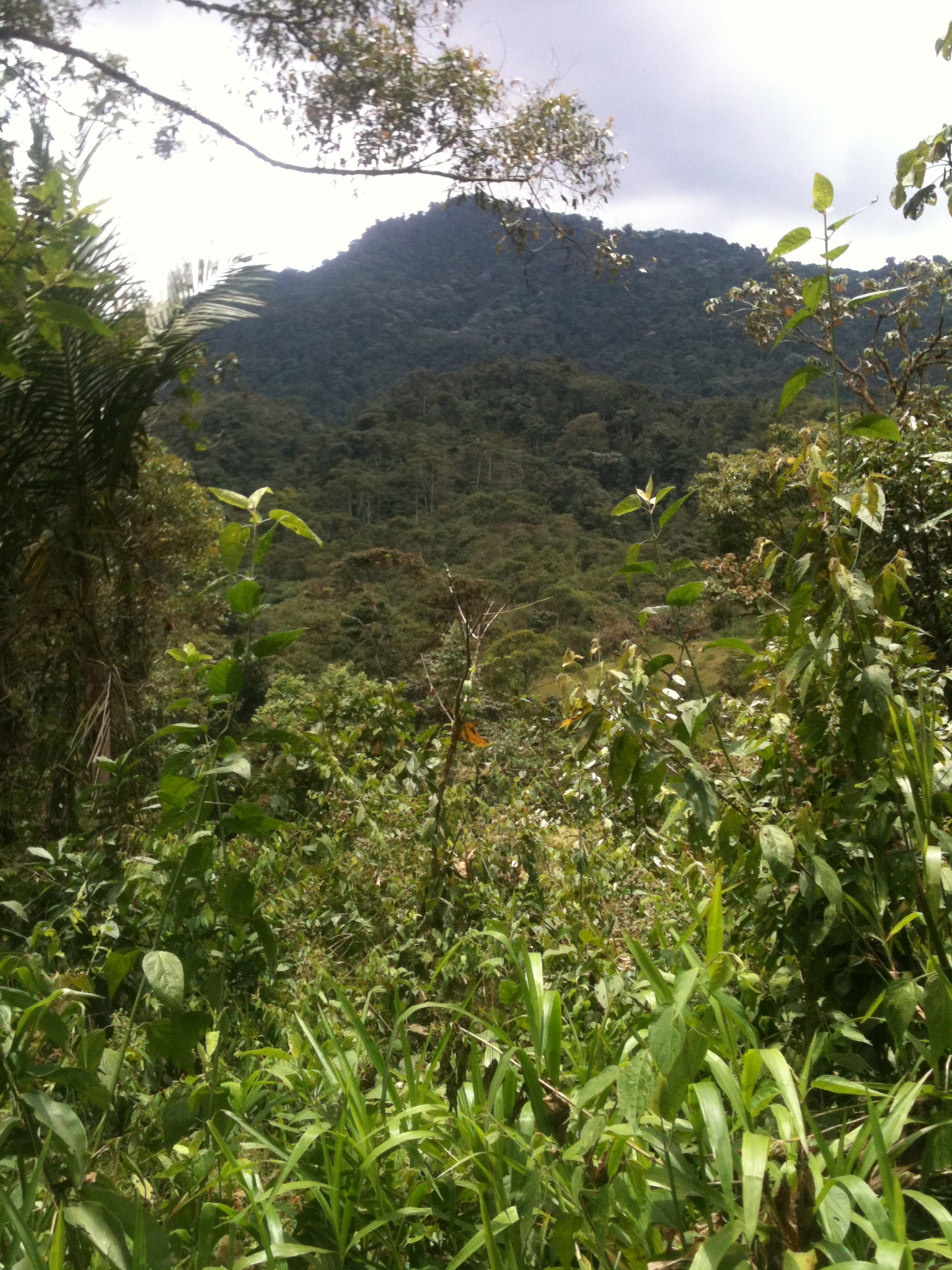 A photo from the Maquipucuna Reserve